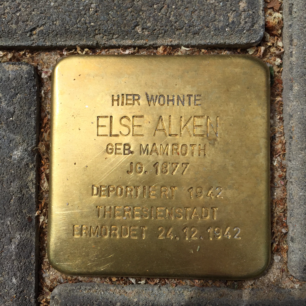 Frankfurt Else Alken Stolperstein